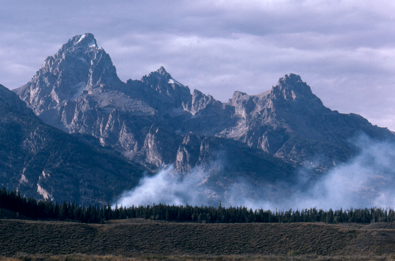 Beaver Creek Fire in Grand Teton National Park, Wyoming, USA